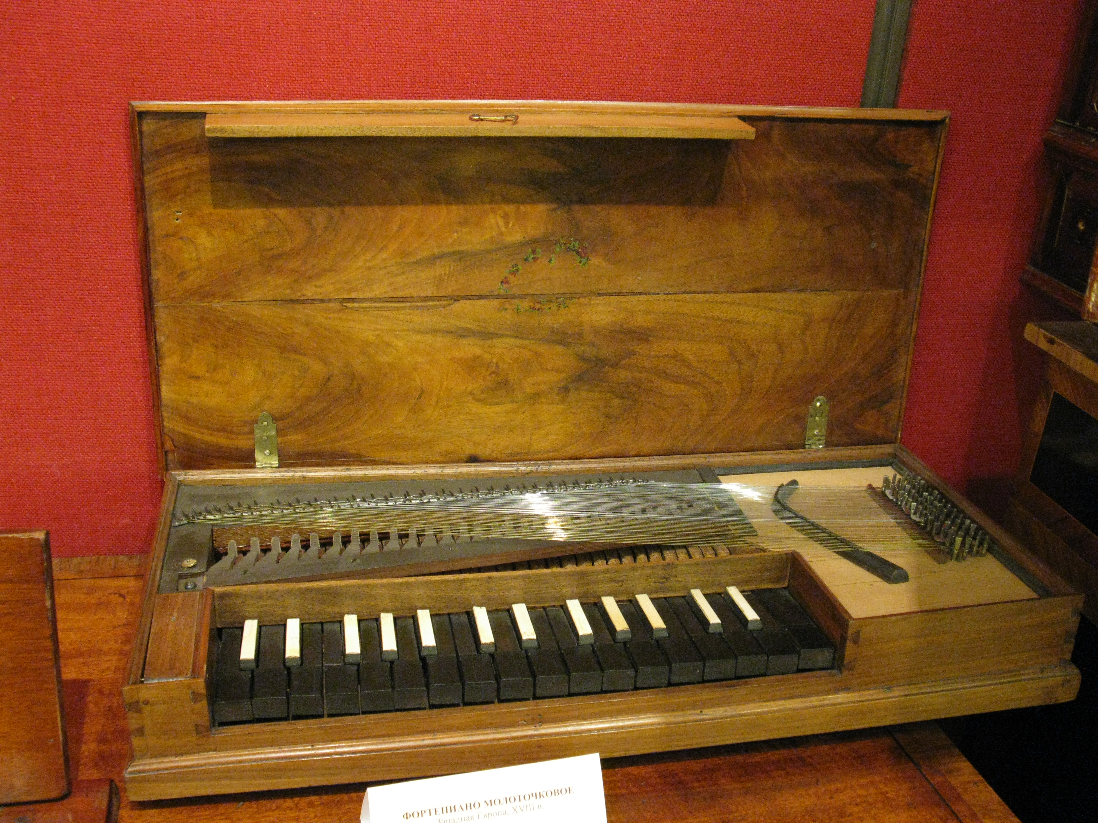 Example of portable fortepiano, sometimes called "Orphica" (Moscow, Glinka Museum) (XVII century)